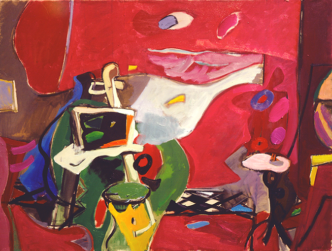 Painting of Moshe Rosenthalis.